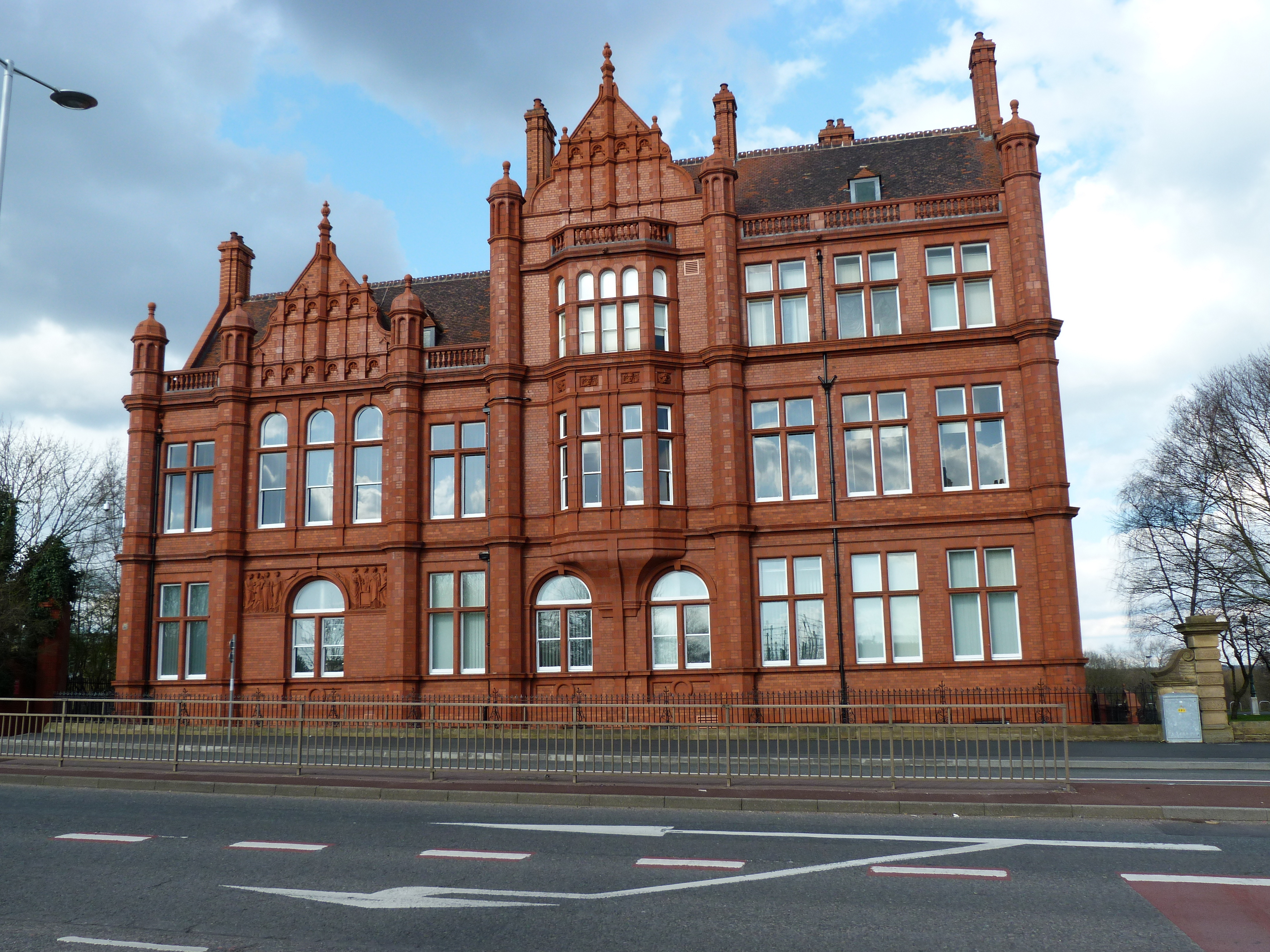 The Peel Building is the oldest bulding in the Salford Campus. Built at the end of the 19th century. Being a bricklayer this building is magnificent.